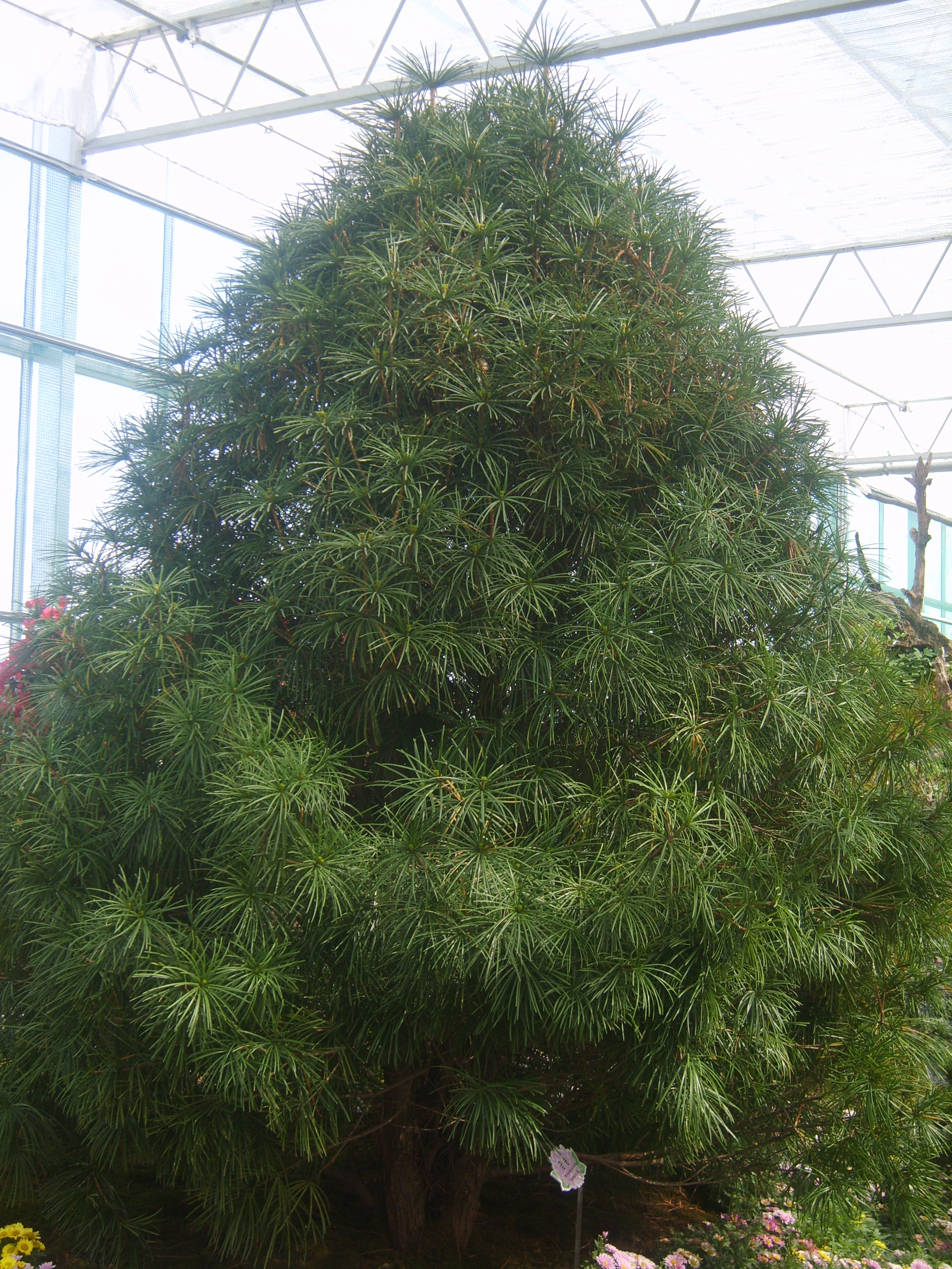 Sciadopitys verticillata in Hampyung Korea. 함평 나비축제에서 금송.